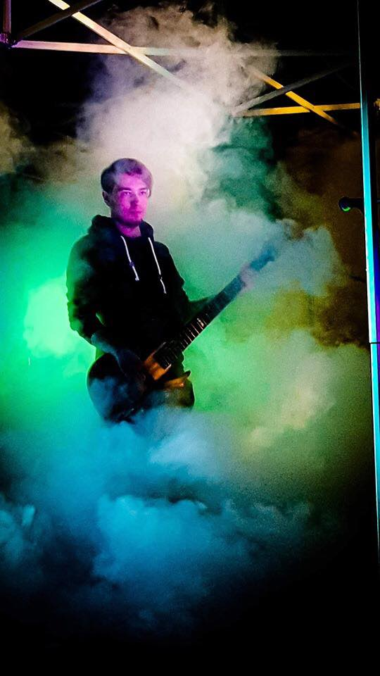 Daniel Gosk - basista UnFaced